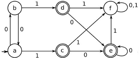 A deterministic finite state machine that can be minimized to the FSM shown in File:Minimized DFA.jpg. See also File:Initialdfaforminimization.svg, for an svg version (still buggy).